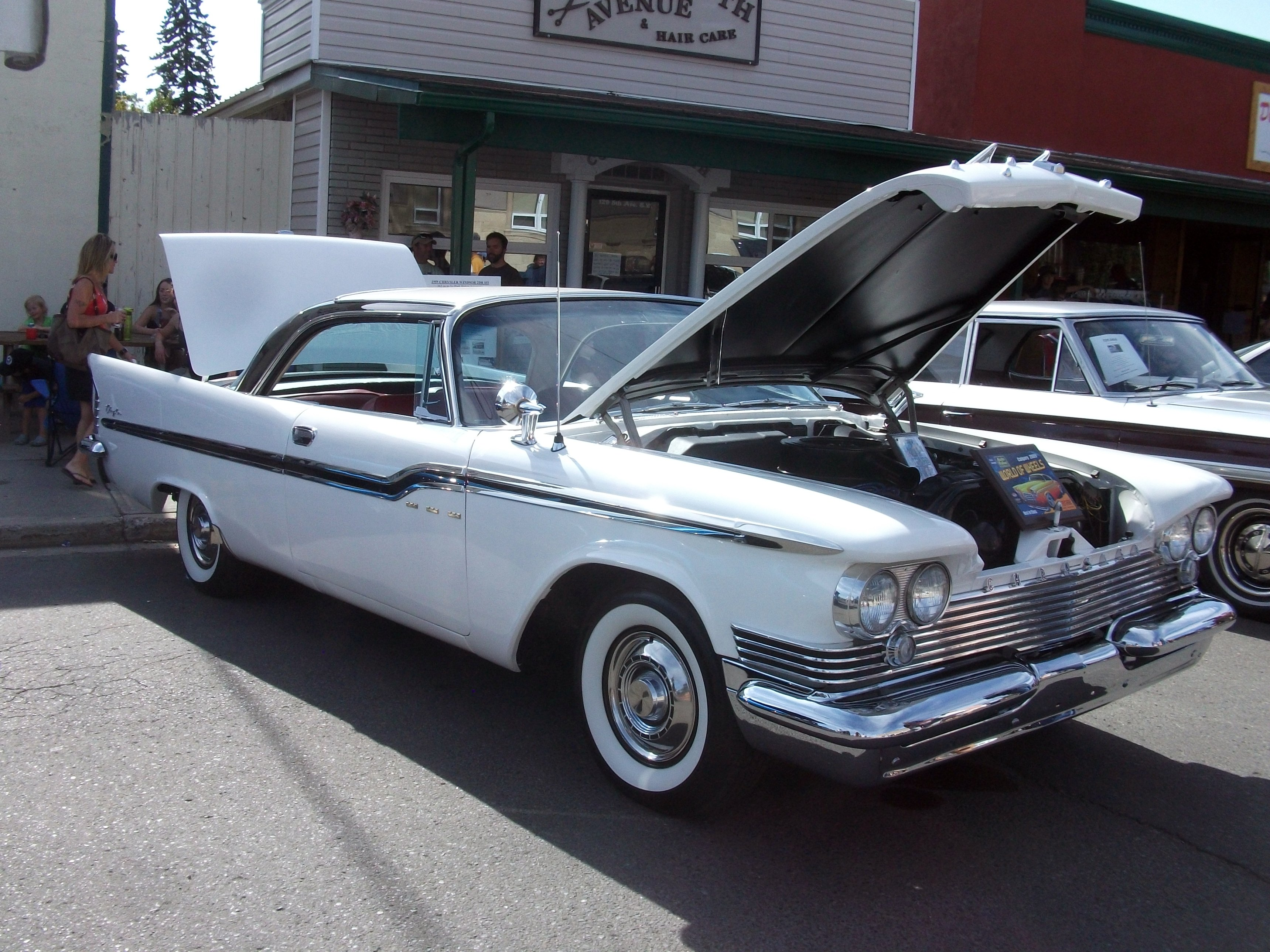 1959 Chrysler Windsor. This Canadian-market car uses three golden crown crests on the front door rather than the Golden Lion used on US cars - presumably because the Golden Lion signified the RB (Raised Block) 383 cubic inch V8 while Canadian Windsors received the 361 cubic inch LB-series (Low Block) engine as used by Dodge and De Soto in the US, where it was called the Ram Fire V8.